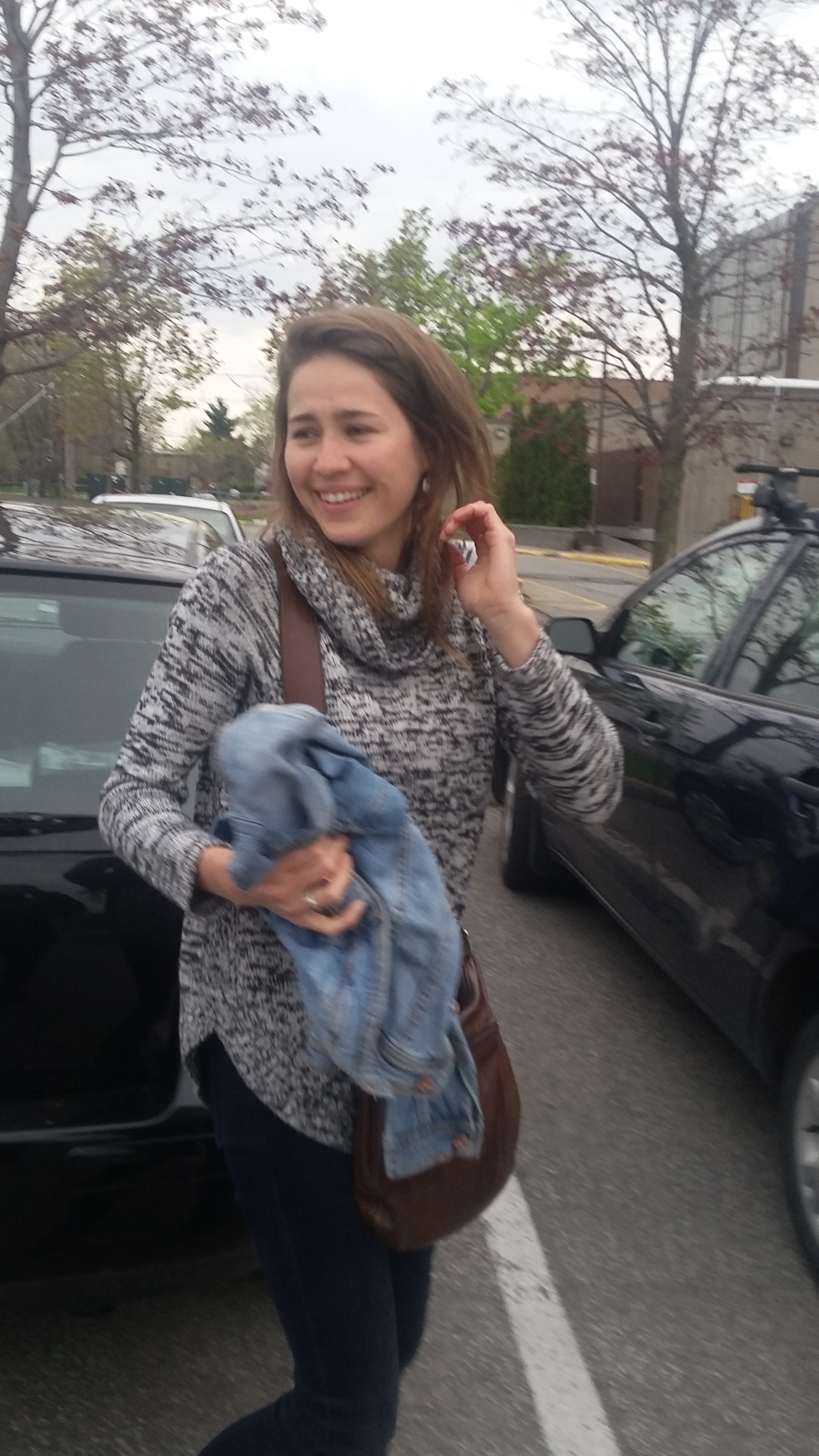 Salomé Leclerc photographed in Longueuil, Quebec, Canada outside the théâtre de la Ville.